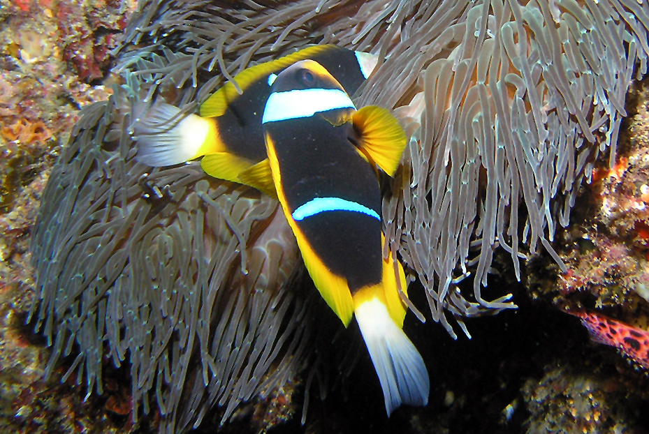 Allard's clownfish, Amphiprion allardi; Taken diving on Aliwal Shoal off Umkomaas, KwaZulu Natal, South Africa